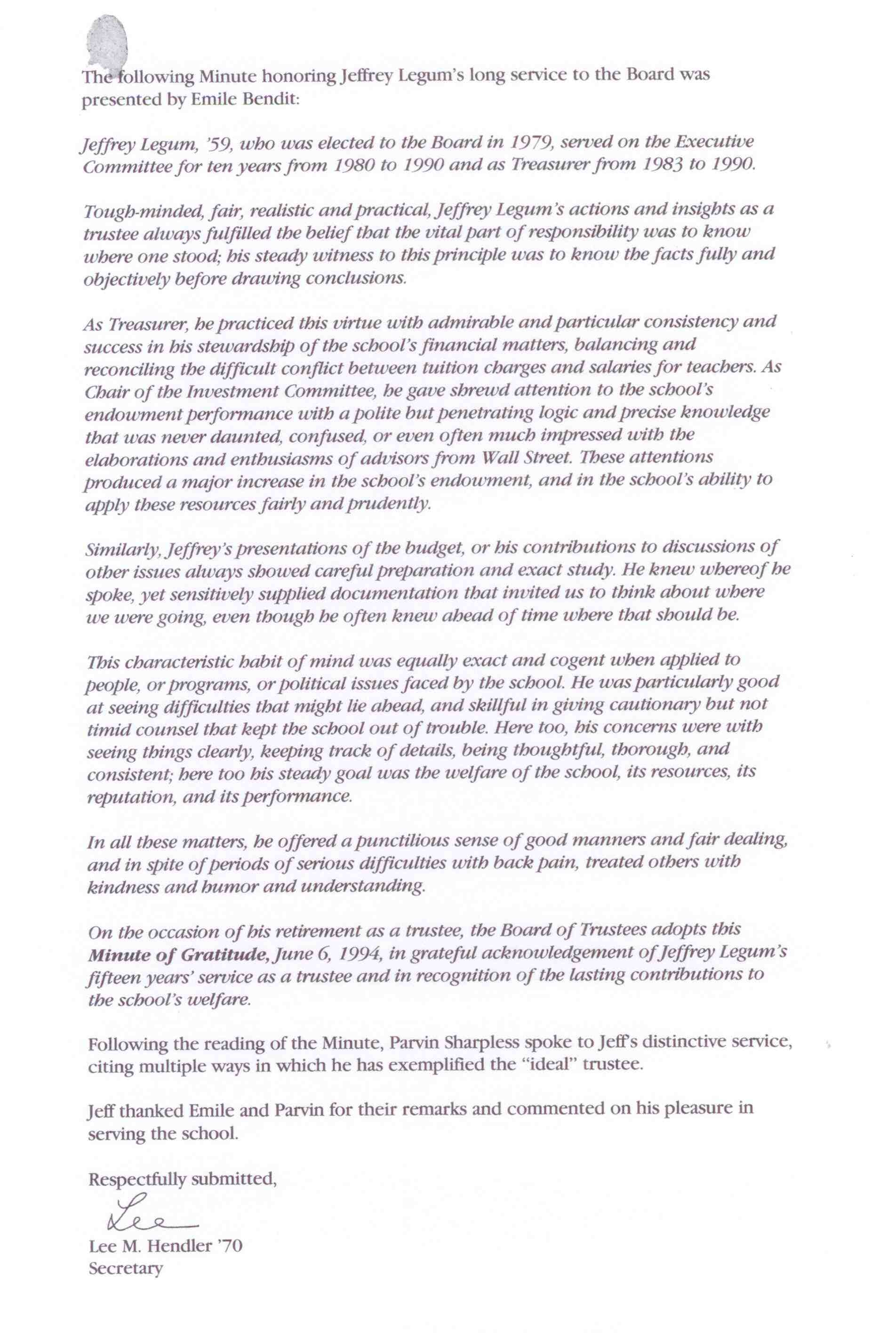 Minute from The Park School Honoring Jeffrey A. Legum